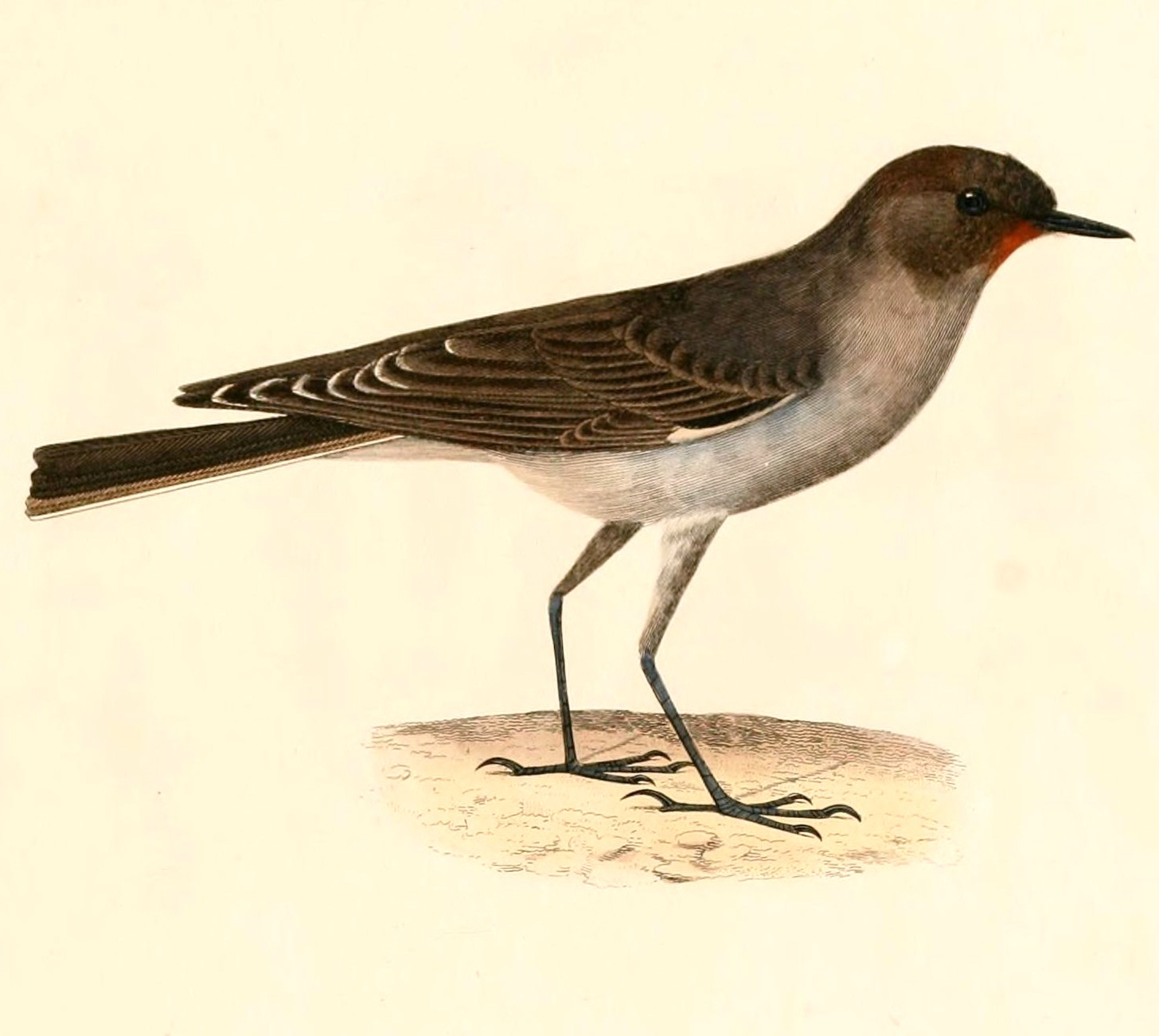 « Muscisaxicola mentalis » = Muscisaxicola maclovianus mentalis (Subspecies of Dark-faced Ground Tyrant)